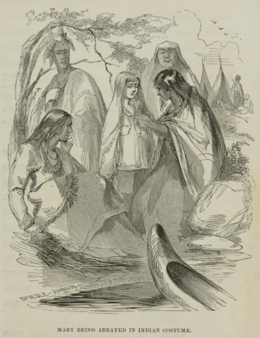 Mary Jemison, American girl captured by Native Americans in the 18th century. Shown being arrayed in Native clothing from the 1856 printing of "The Life of Mary Jemison, Deh-He-Wa-Mis"